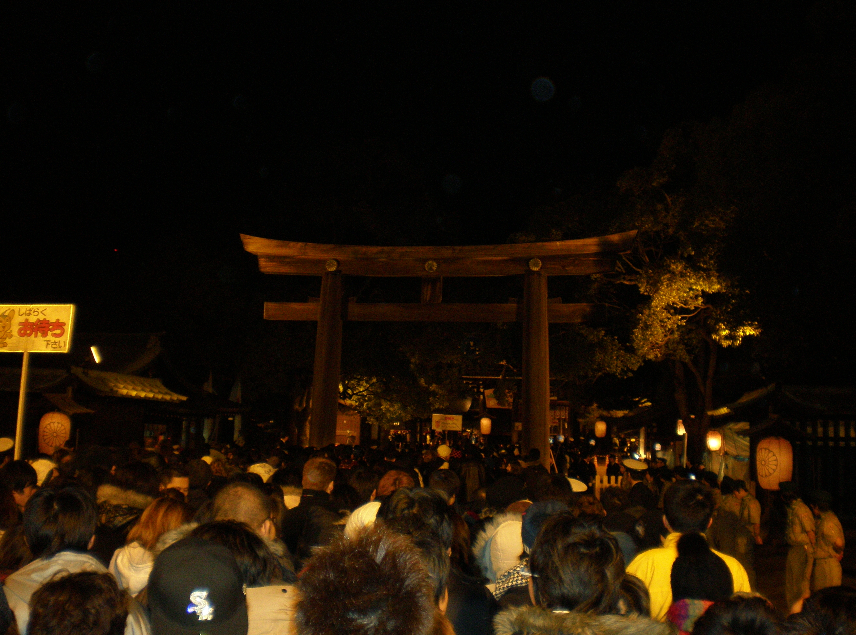 Meiji Shrine Sando and Torii New Year Worship on January 1.